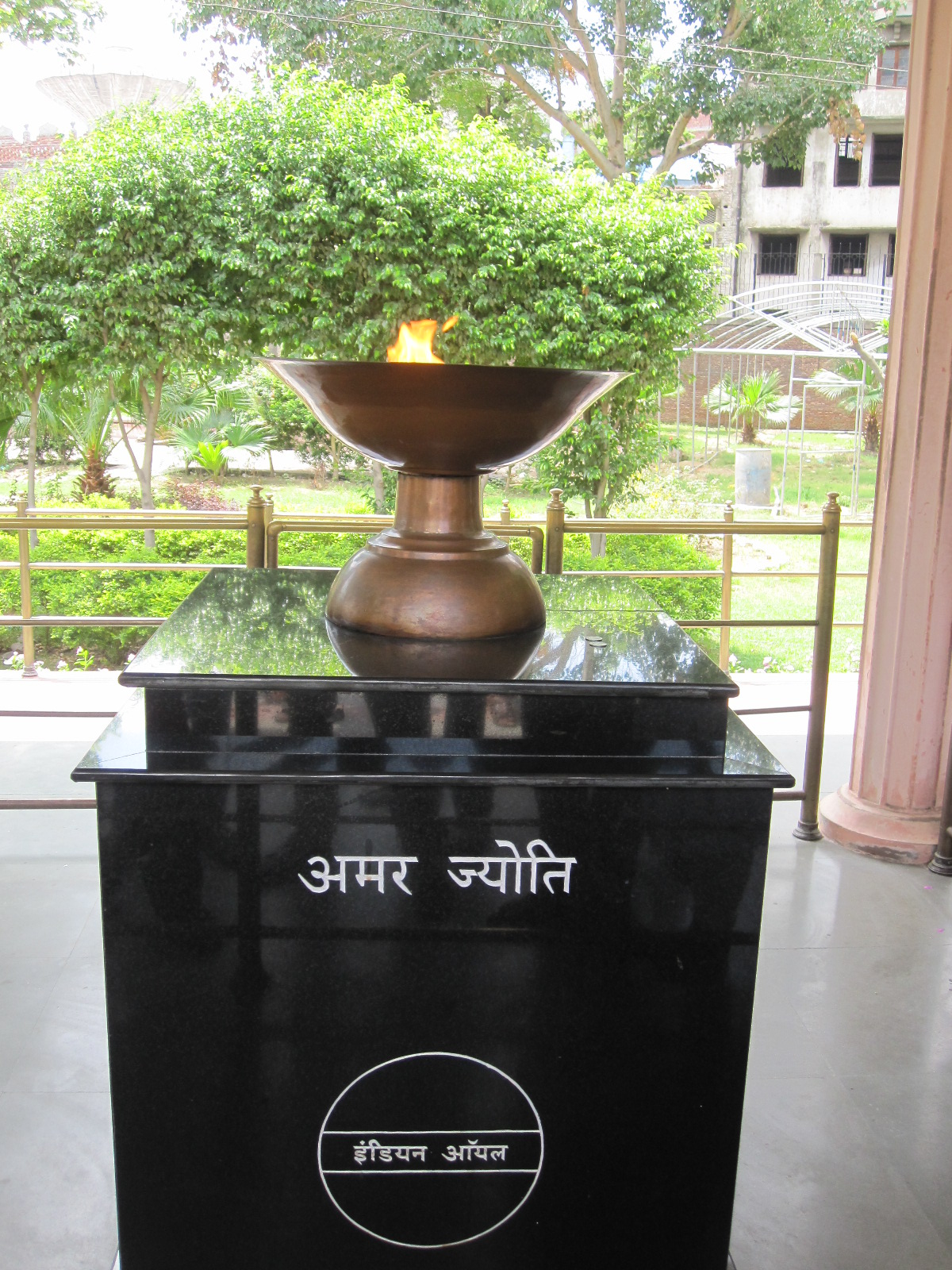 Amar Jyoti at Jallianwala Bagh